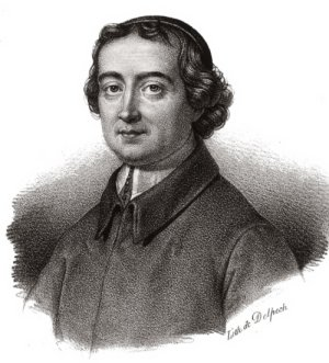 Portrait of Jean-Baptiste Massillon